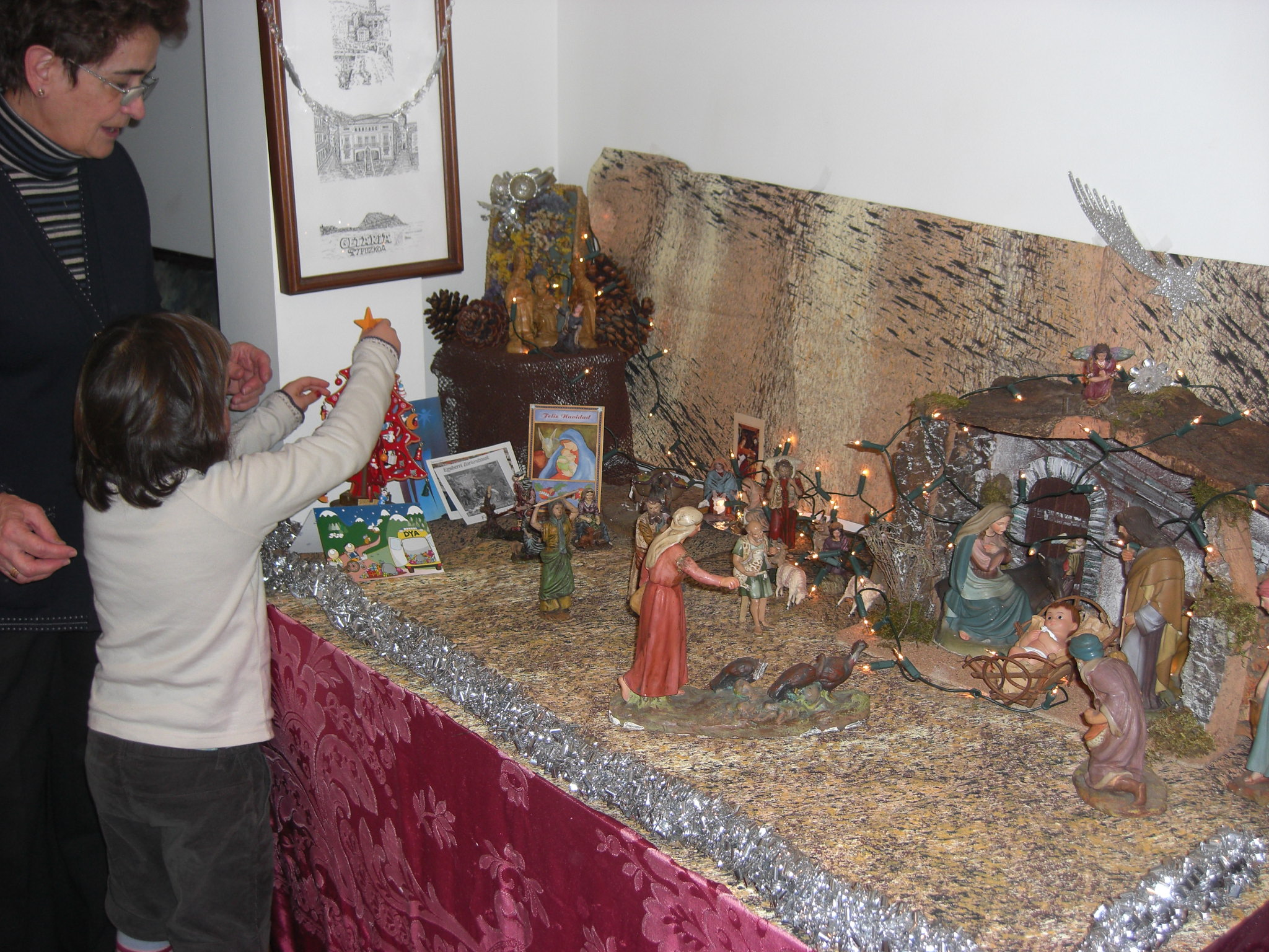 Nativity scene in basque house.